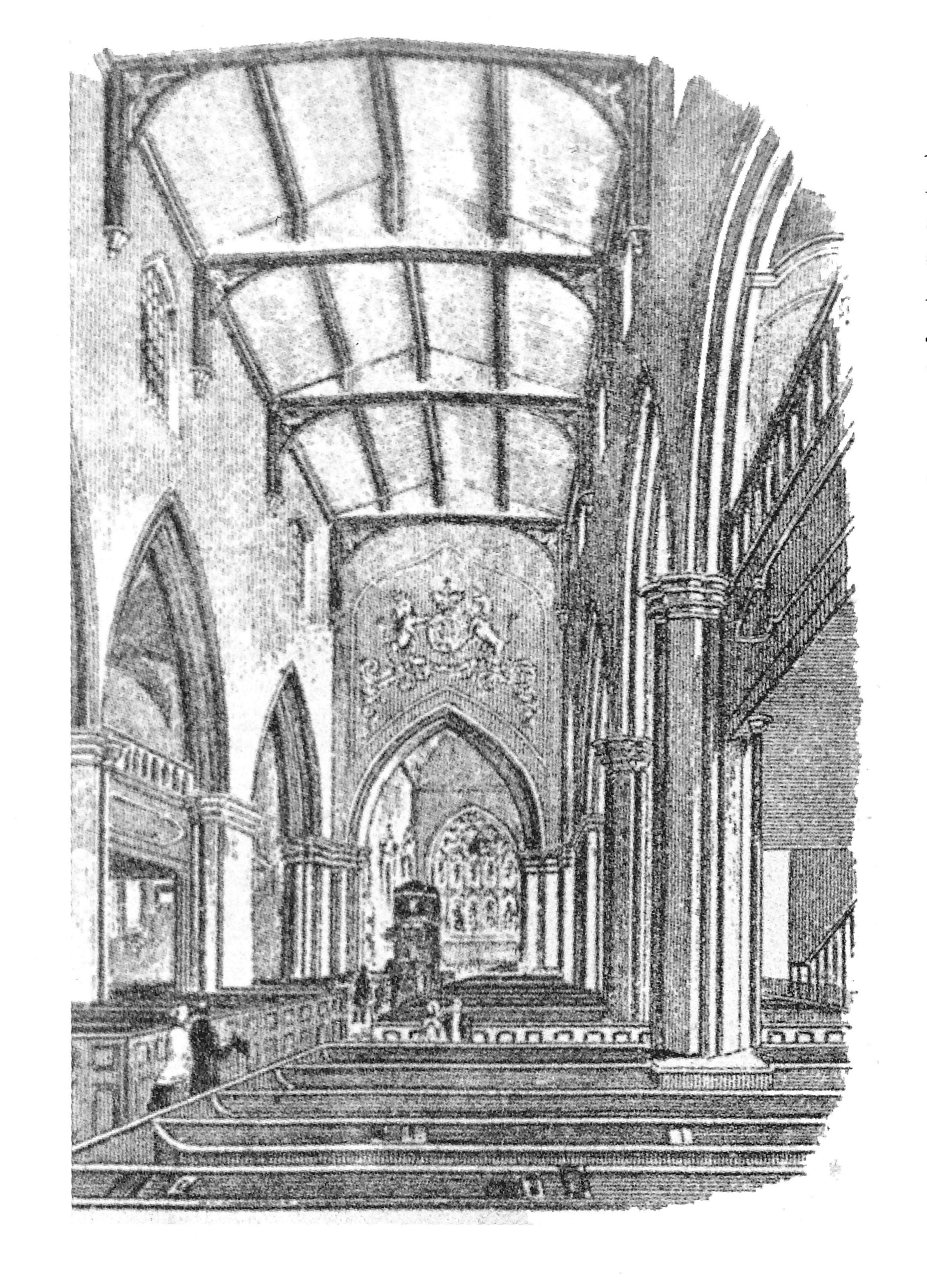 interior of St Mary's Church, Chesham, Buckinghamshire, prior to 1869 rebuilding